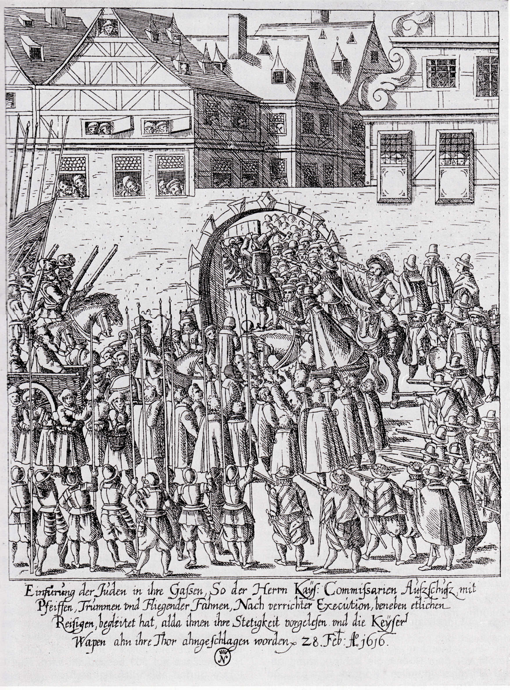 Fettmilch Riot: Reintroduction of the Jews in Frankfurt on February 28, 1616 according to imperial proclamation after Fettmilch's execution.